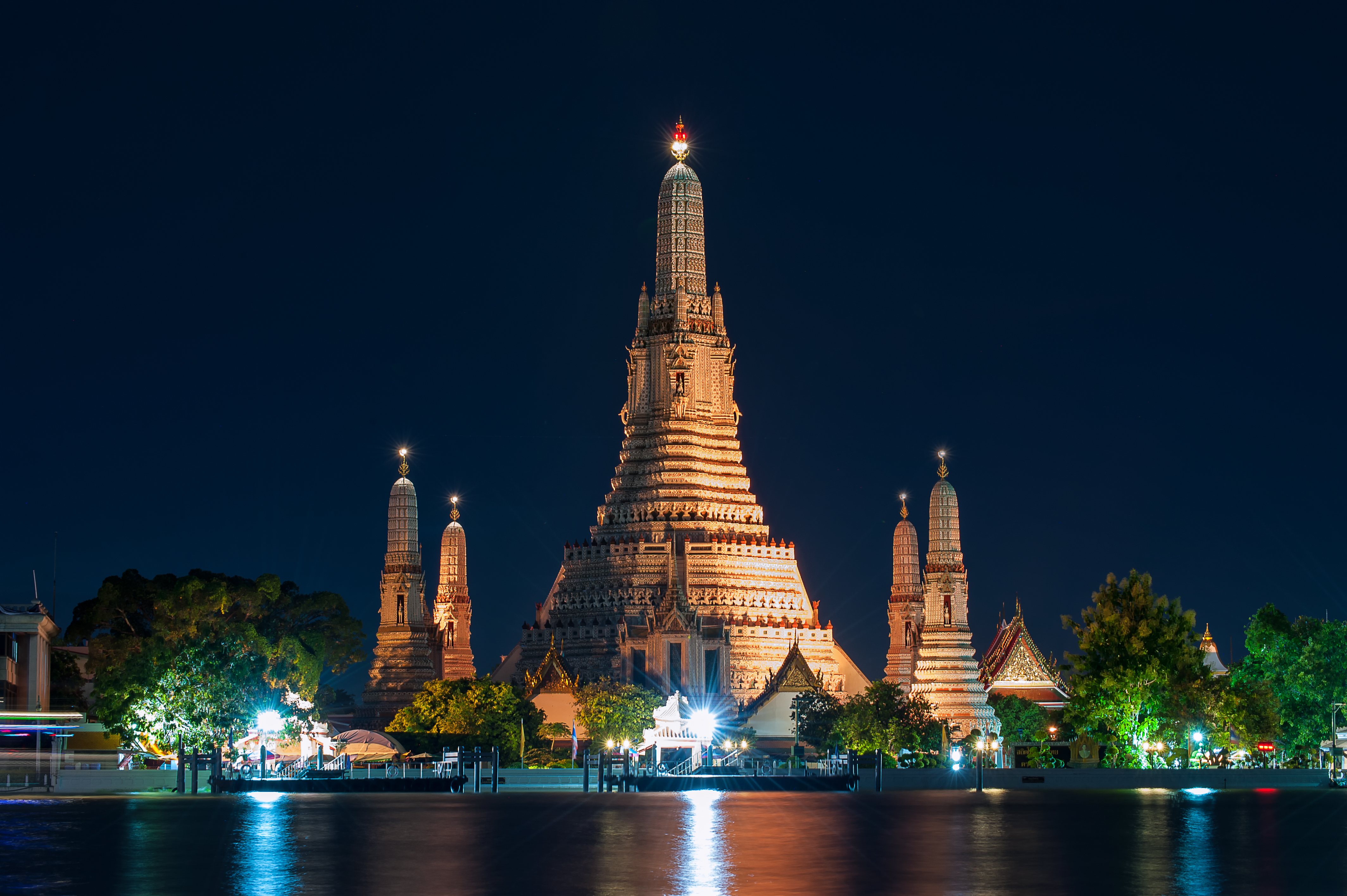 Wat Arun Ratchawararam, Bangkok Yai District, Bangkok